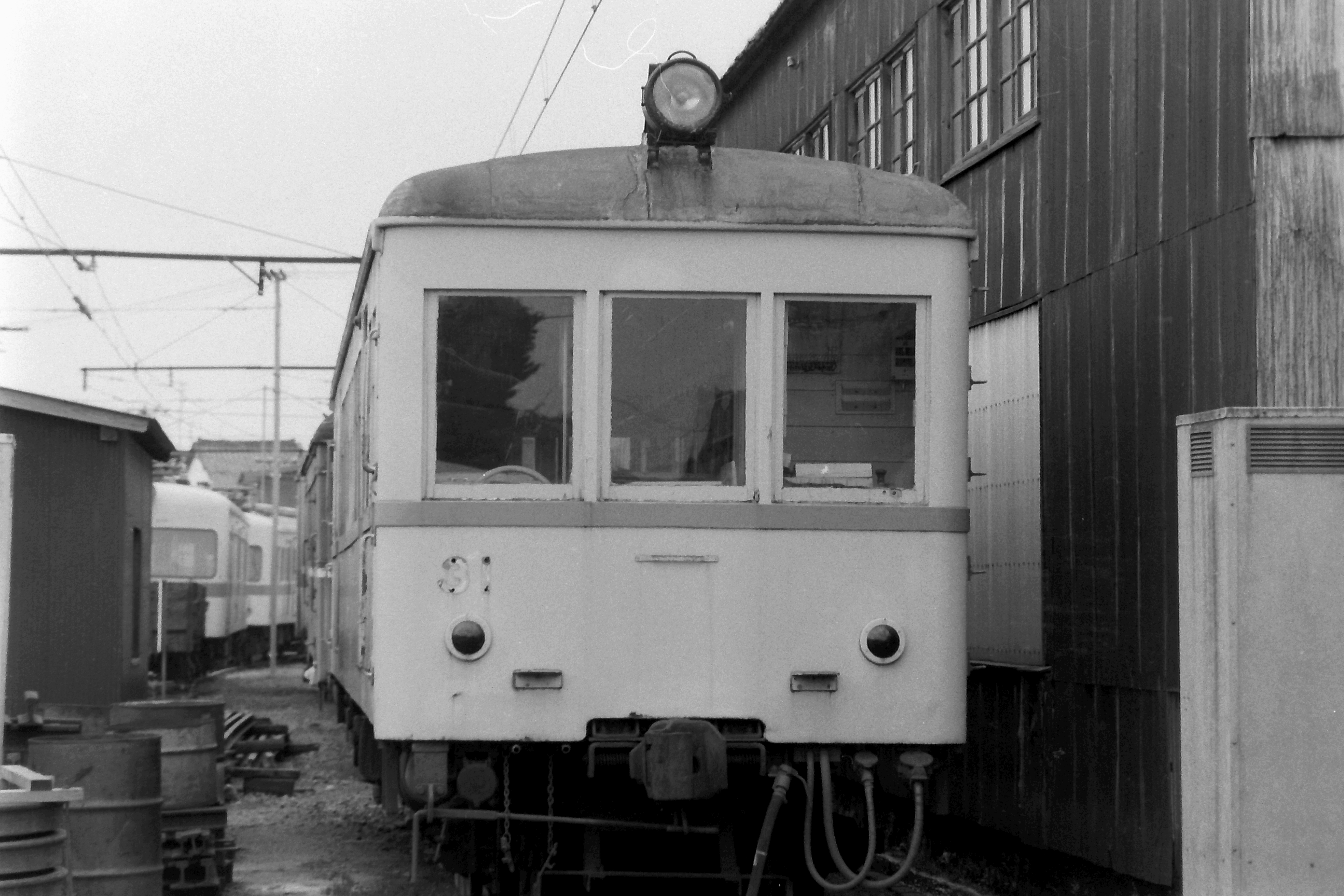 Ichibata 31 EMU in Hirata Depot. The picture taken under permission